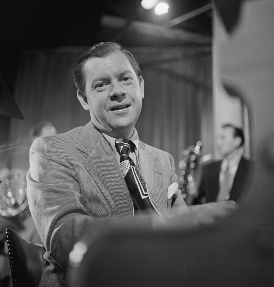 Claude Thornhill, Columbia Picture studios, September 1947. Photography by William P. Gottlieb